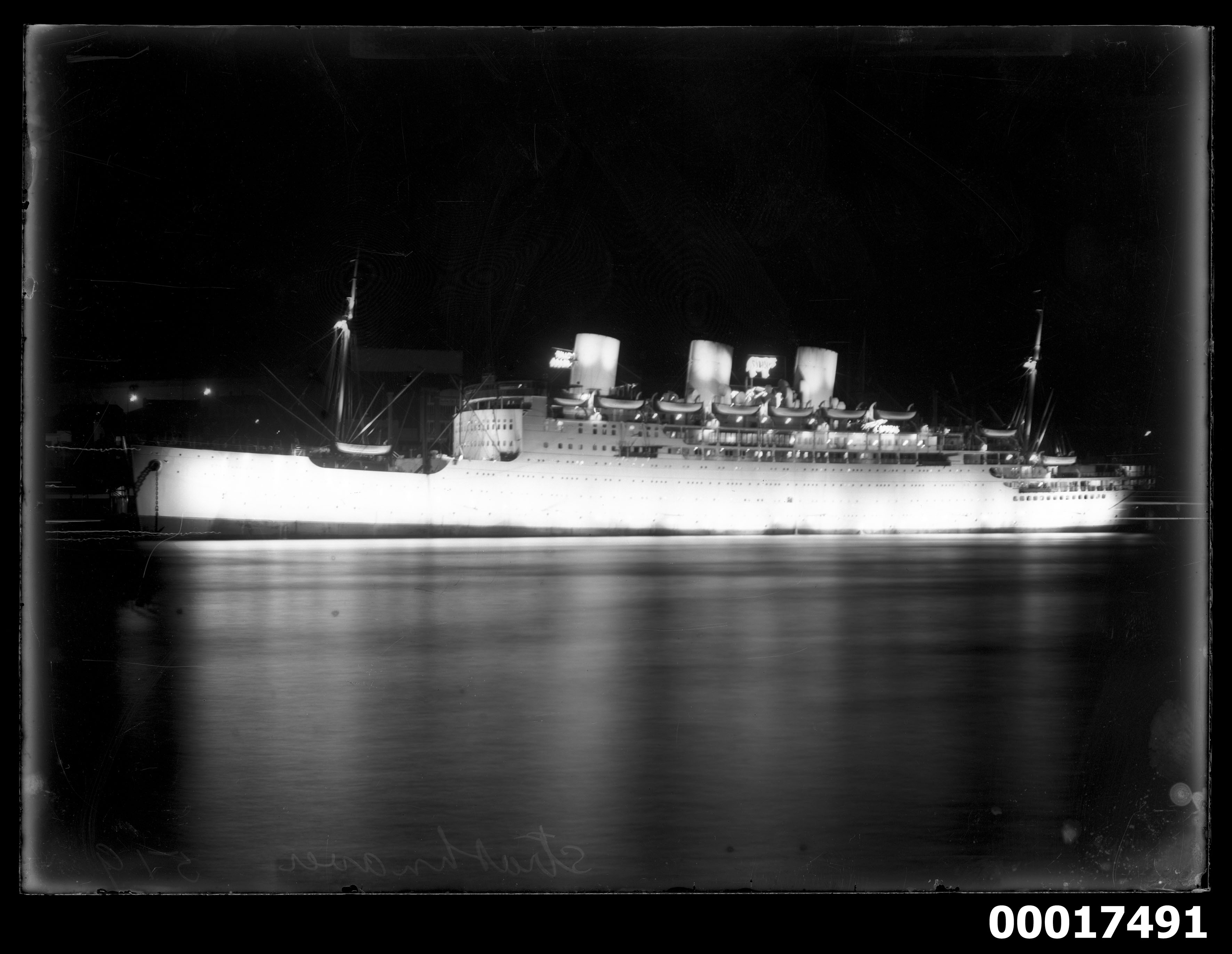 This image depicts the Royal Mail Ship and ocean liner operated by the Peninsular and Oriental Steam Navigation Company - STRATHNAVER. The vessel was launched in 1931 and was the first of a series of Strath class ocean liners built by the Vickers-Armstrong shipyard in Barrow-in-Furness, England. The ANMM undertakes research and accepts public comments that enhance the information we hold about images in our collection. This record has been updated accordingly. Photographer: unknown Object no. 00017491